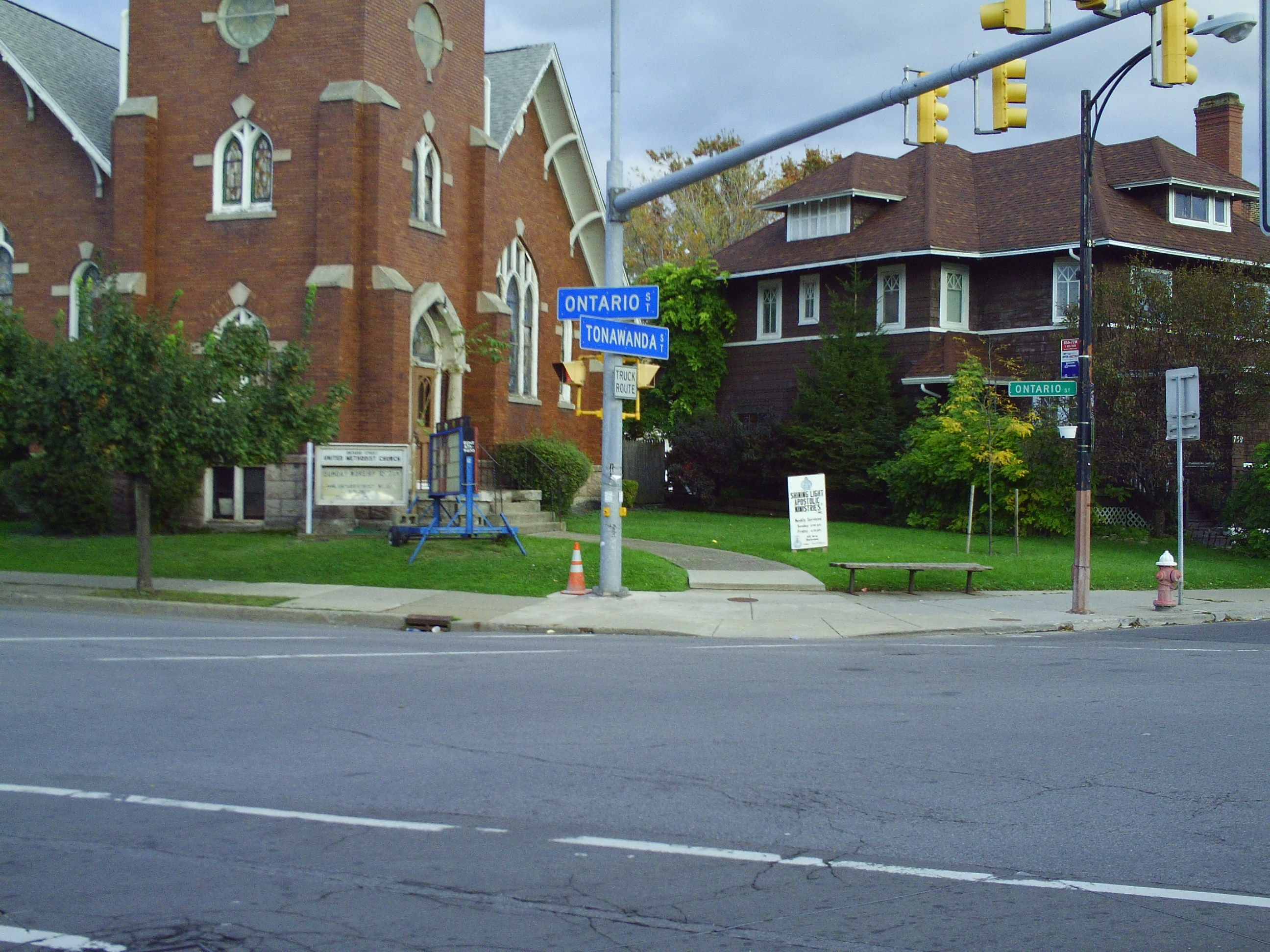 Corner of Tonawanda St. and Ontario St., Buffalo, NY 14207